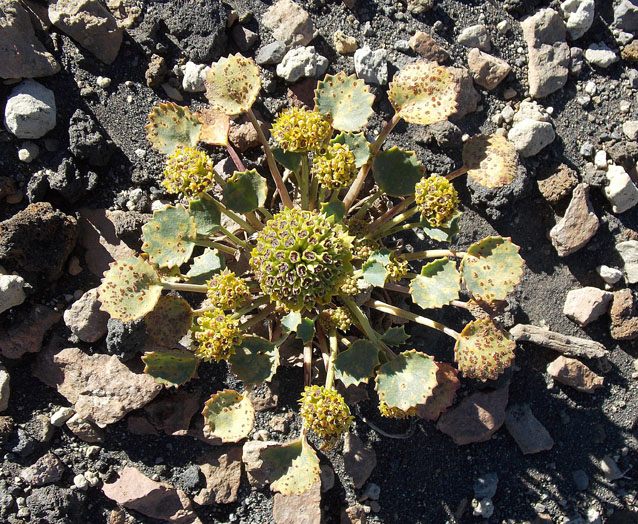 Anislao de los Volcanes, from volcanoes of the southern Andes. In context at